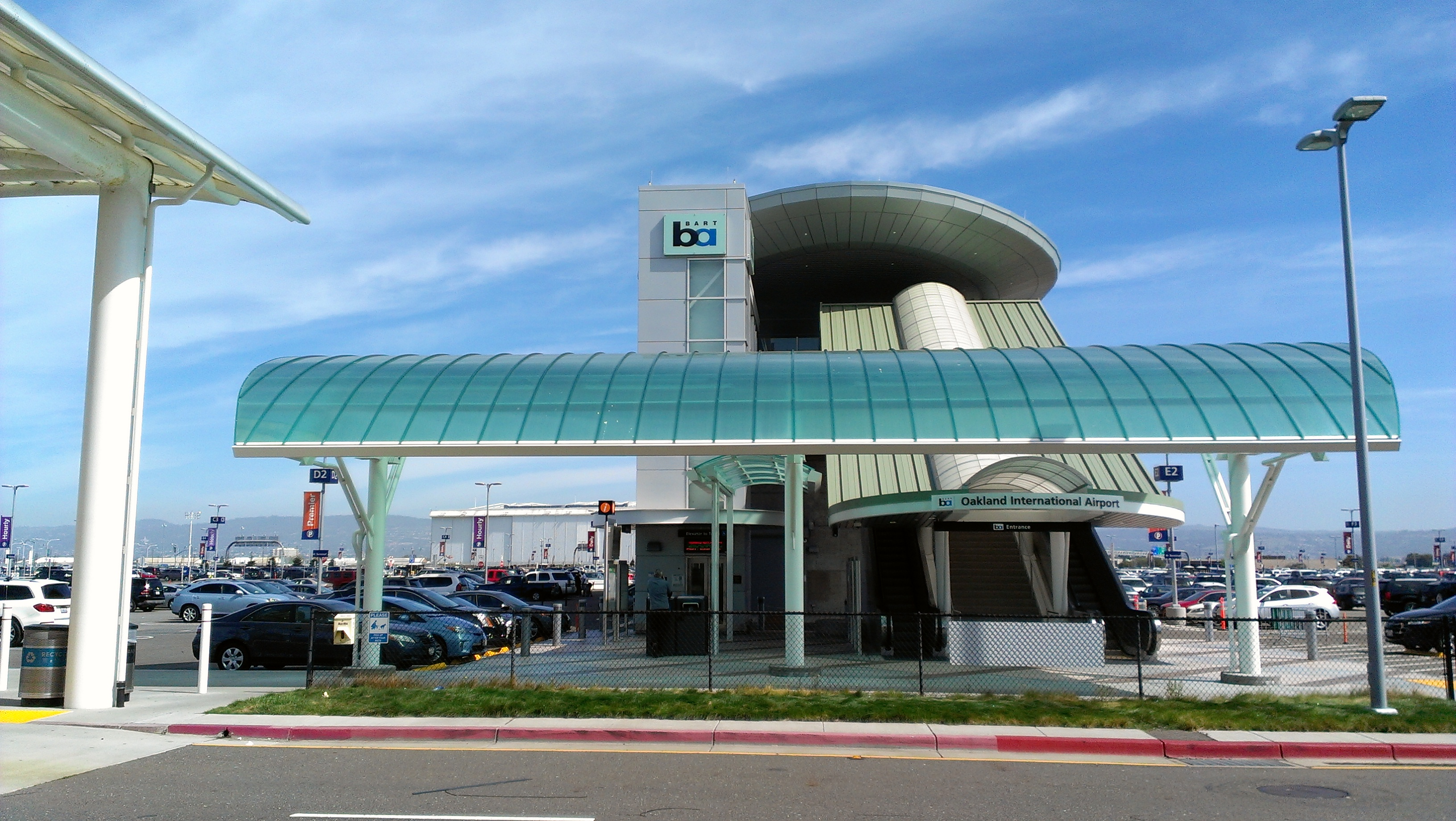 Viewed from terminal